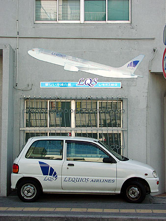 Former Lequios Airlines building